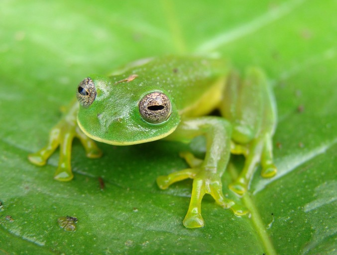 Centrolene buckleyi